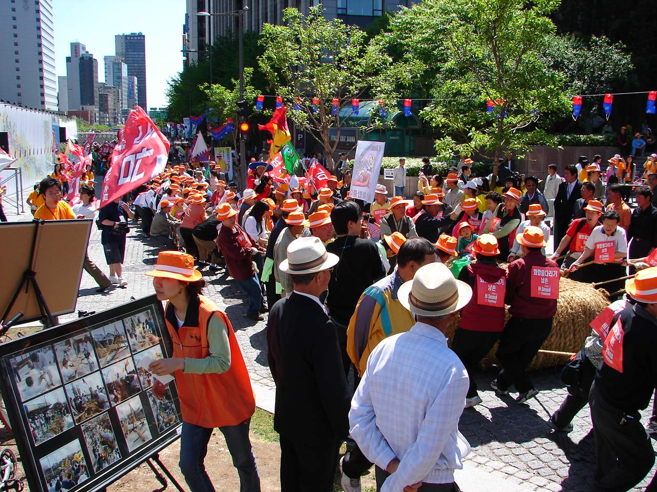 Hi! Seoul Festival event